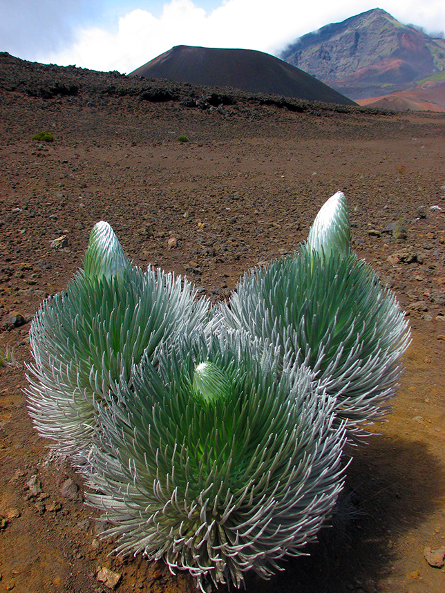 Argyroxiphium sandwicense subsp. macrocephalum, the Haleakalā silversword.